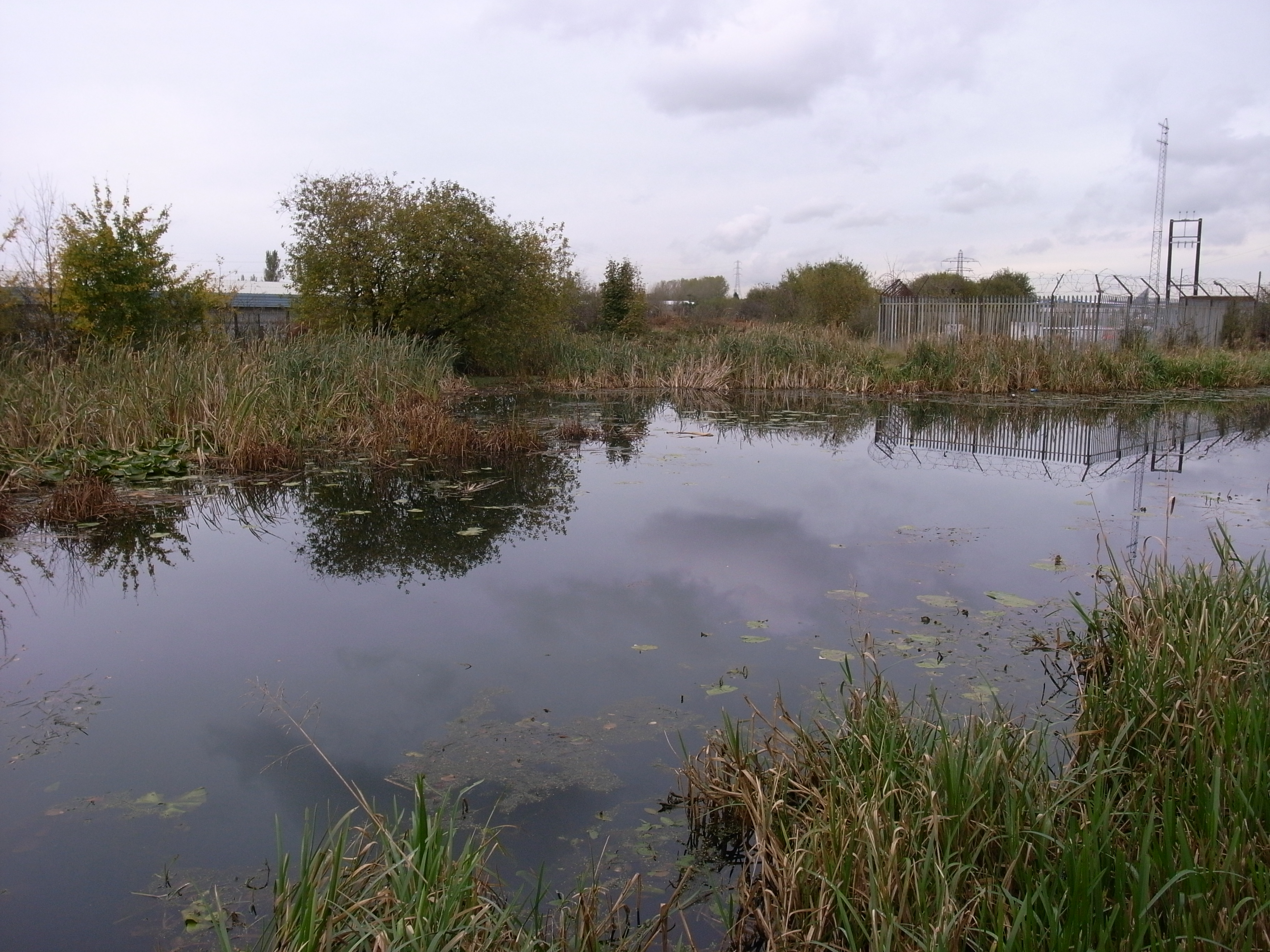 Anson Junction. The Anson Branch (now mostly filled-in) ran ahead through the reeds to the, also defunct, Bentley Canal. The Walsall Canal (part of the Birmingham Canal Navigations runs across. Near Darlaston in West Midlands (county), England.